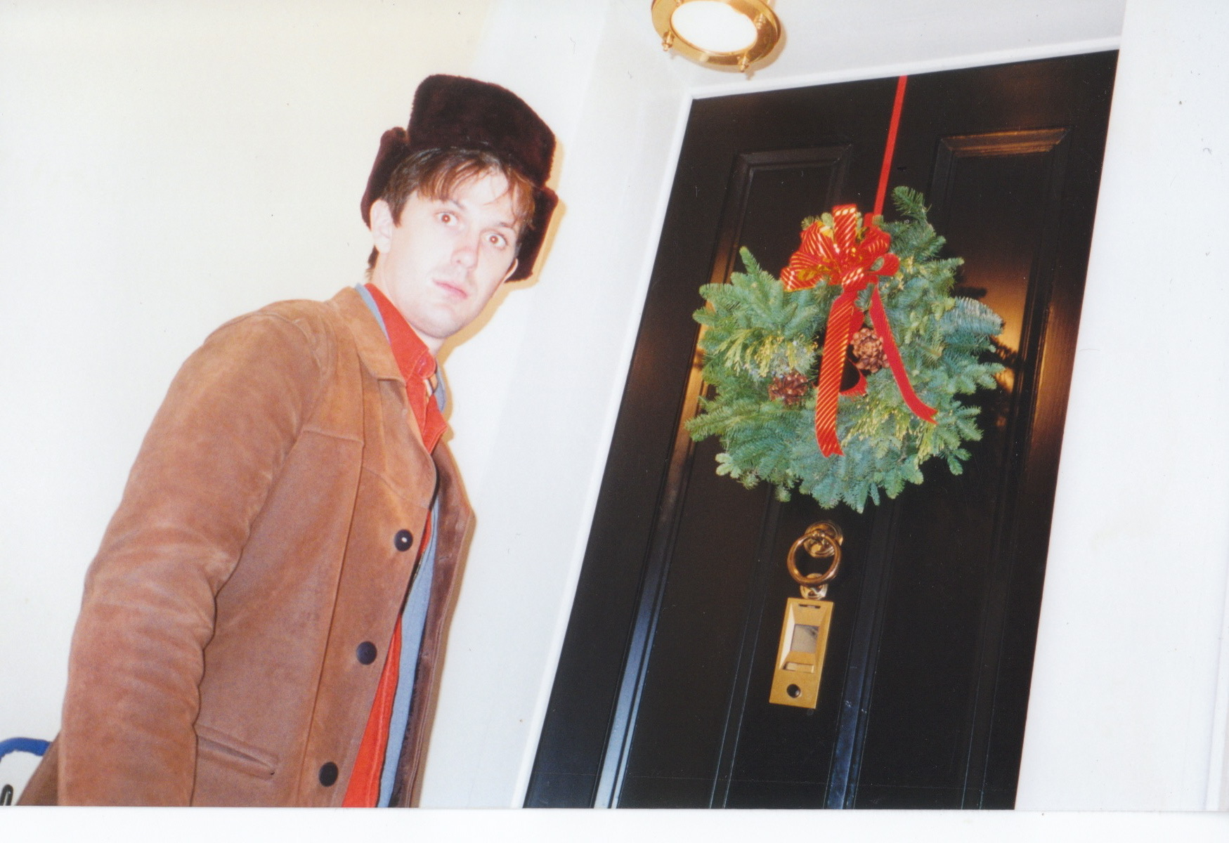 DMc somewhere in NY, sometime in the 90's